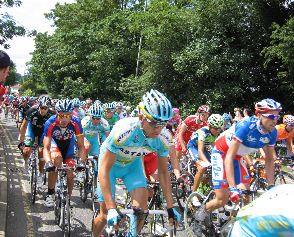 Tour de France in Ashford 2007 stage 1 photo taken in Chart Road by St Mary's School